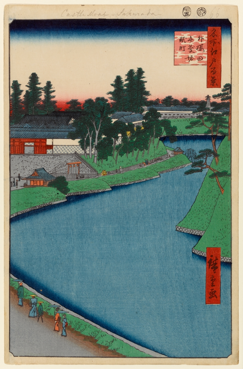 Part of the series One Hundred Famous Views of Edo, no. 054, part 2: Summer.